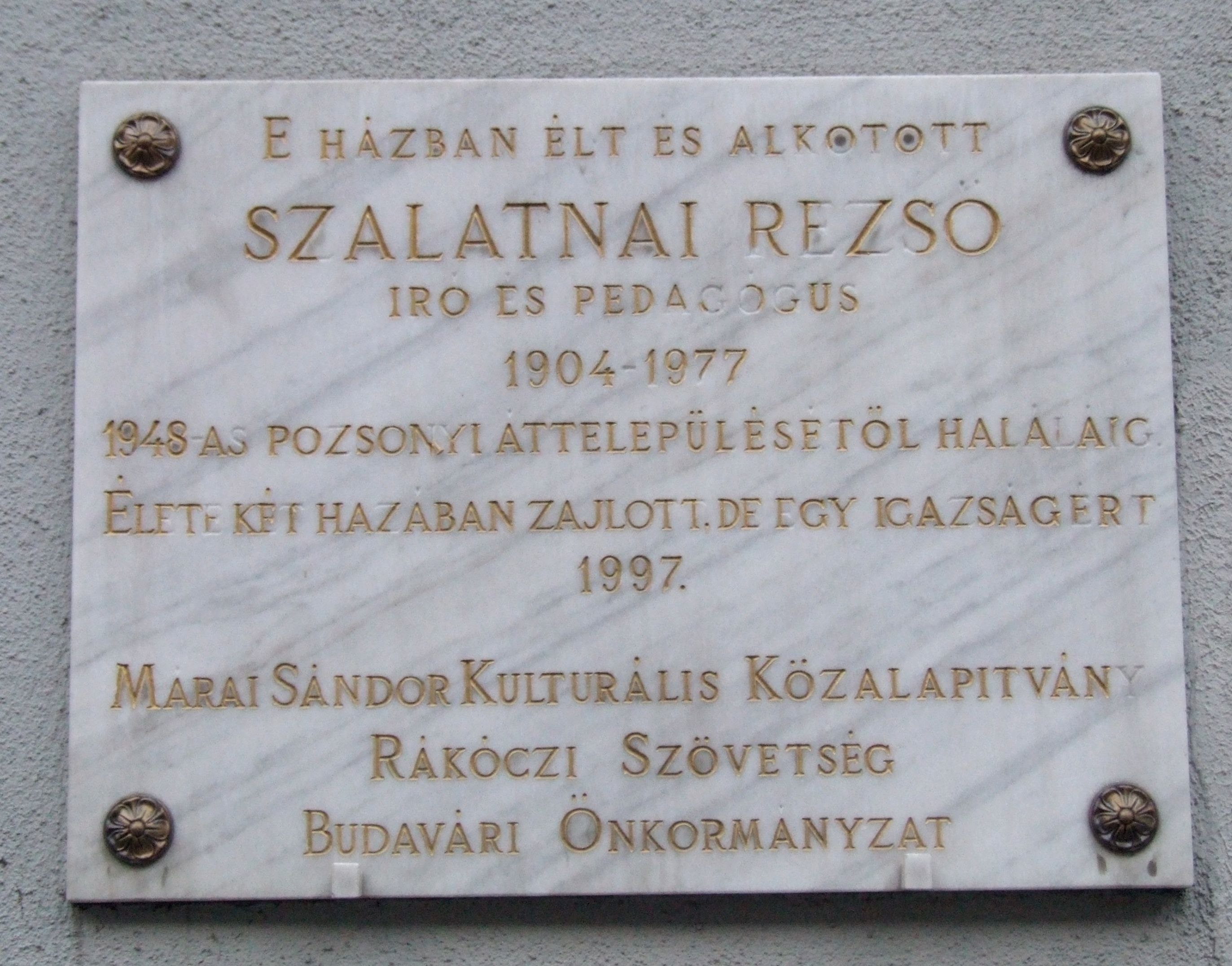 Rezső Szalatnai commemorative plaque in Budapest District I, Attila Street No 75